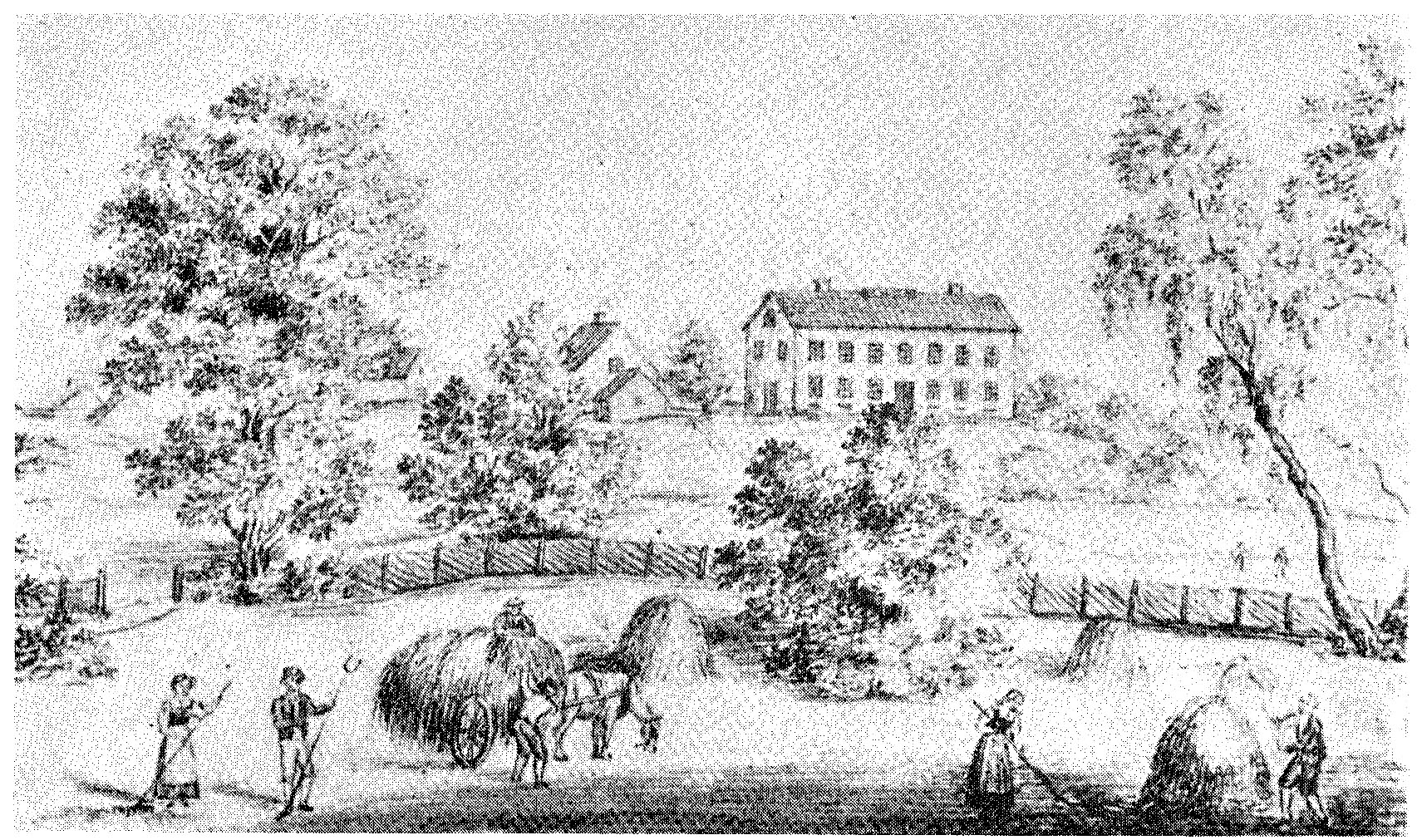 Degeberg 1835 drawn by Emily Nonnen (1812-1905).